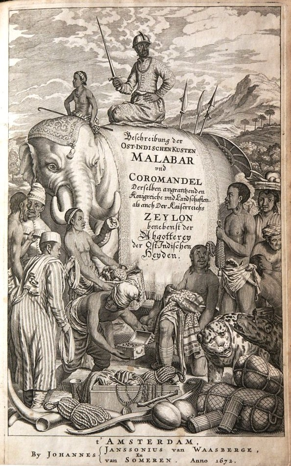 Titlepage Baldaeus